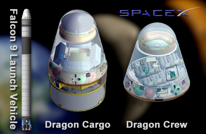 Artist's concept of SpaceX's Falcon 9 Launch Vehicle and Dragon crew and cargo capsules. Please note this image is inaccurate, both spacecraft ought have solar panels, the crewed variant ought have have a trunk, a docking mechanism (a berthing mechanism is show), and a Launch Escape System.